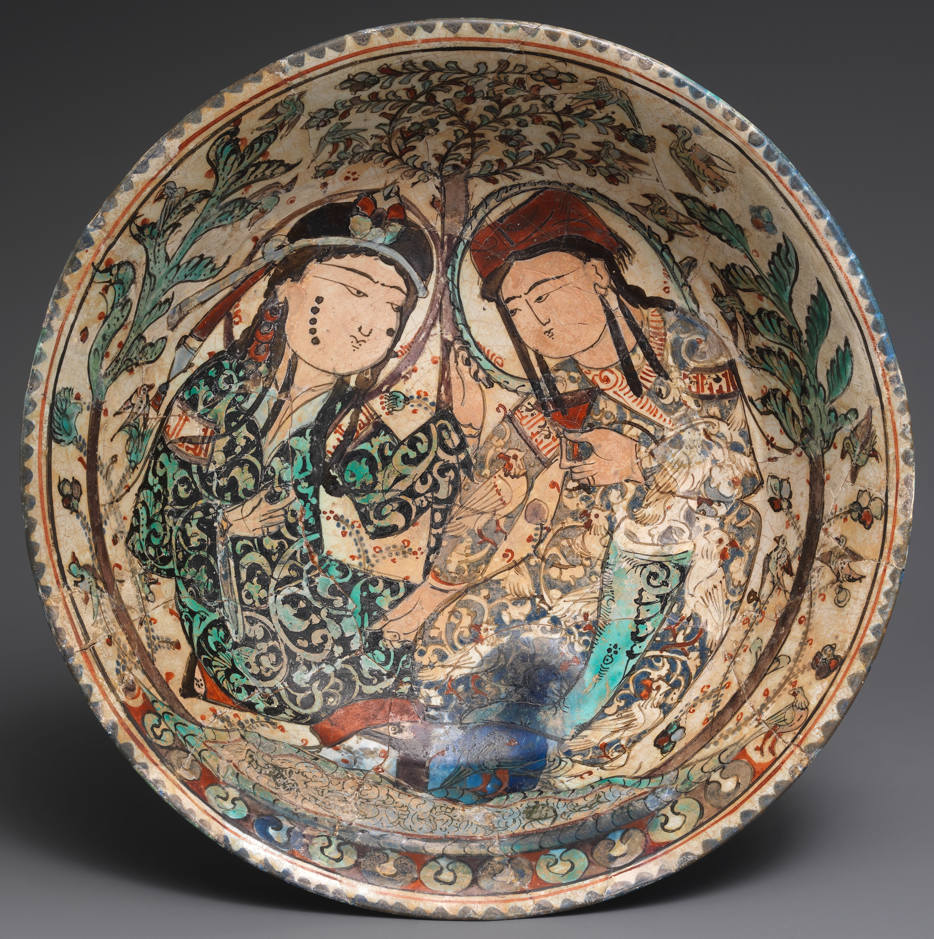 Iranian; Bowl; Ceramics-Pottery